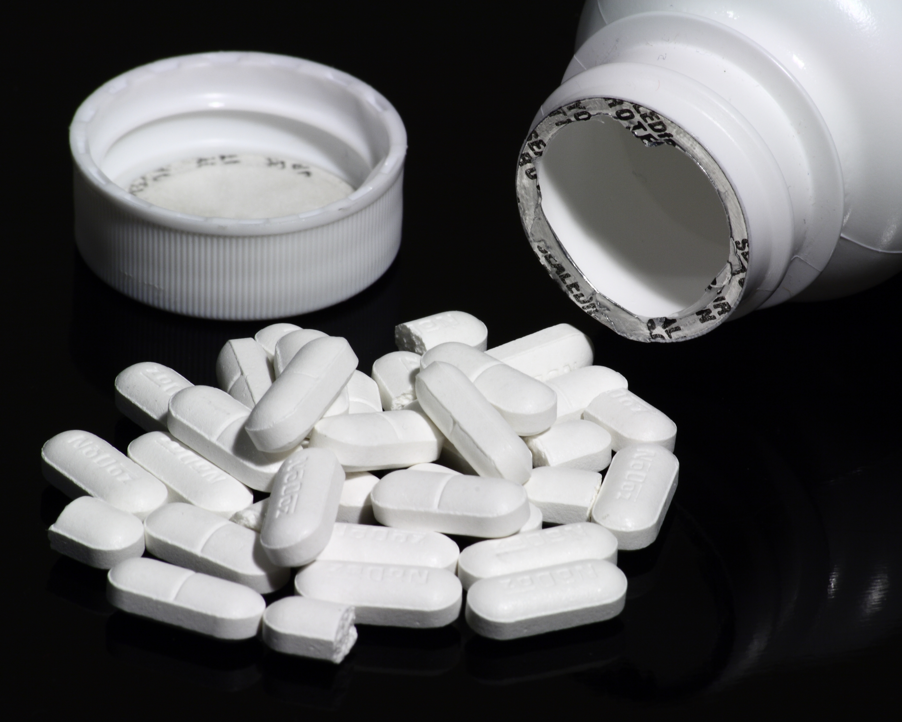 NoDoz caffeine tablets containing 200 milligrams of caffeine each, distributed by Novartis Consumer Health, Inc.